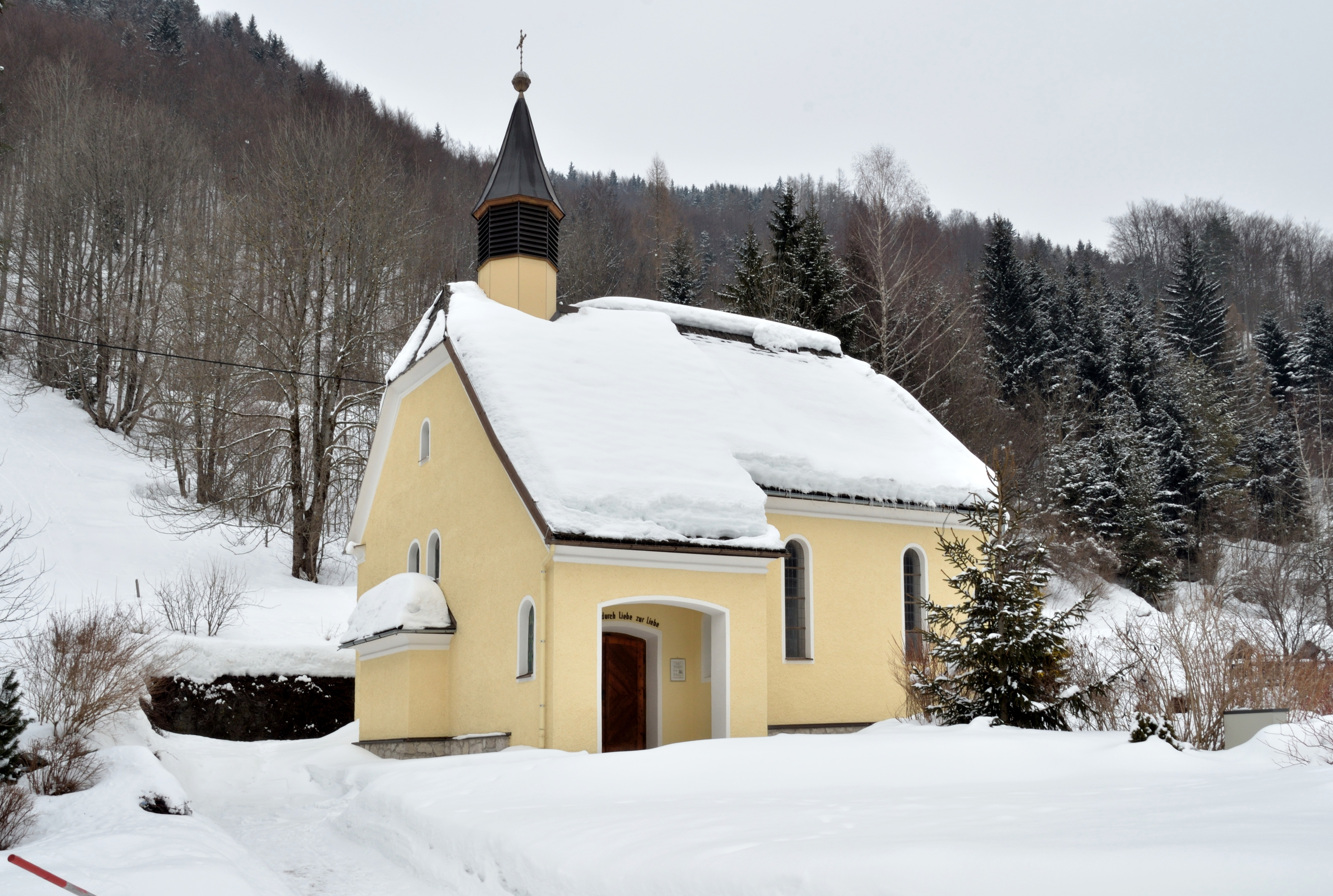 The subsidiary church at Rosenau am Hengstpaß, Upper Austria, is protected as a cultural heritage monument.